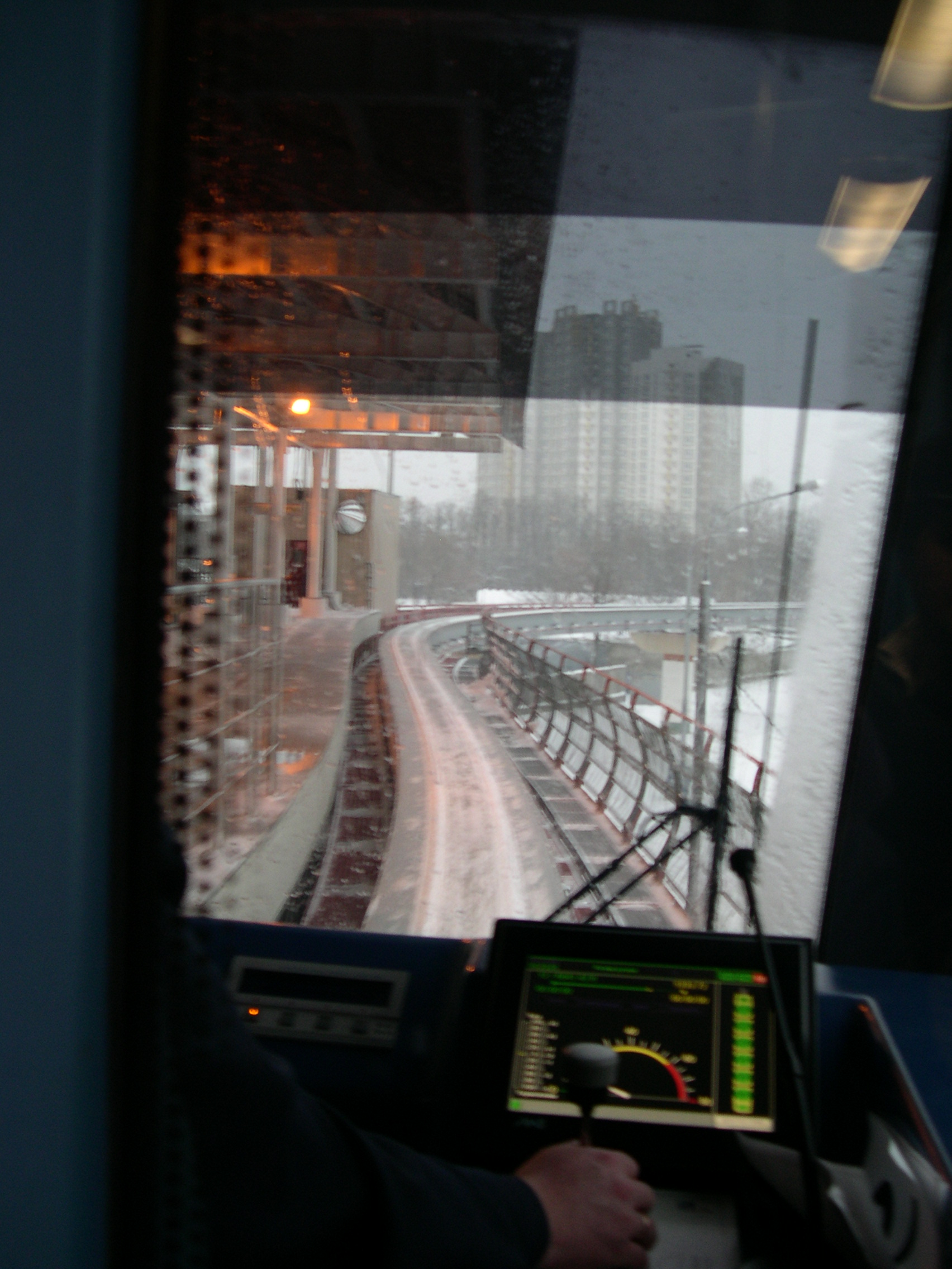 Moscow monorail. View from the 1st car.